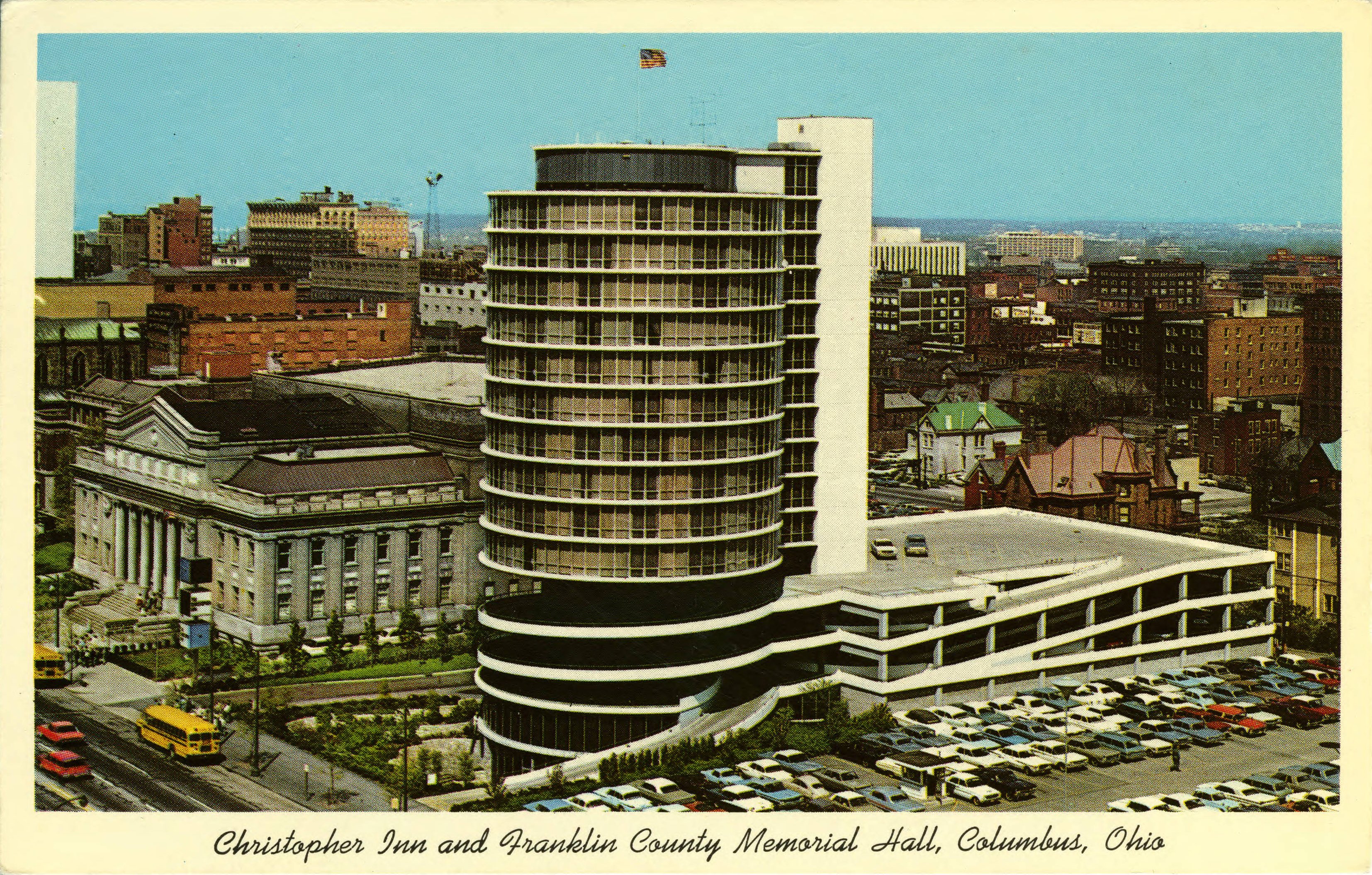 Christopher Inn hotel postcard at opening. Before 1964 COSI. No copyright notice.